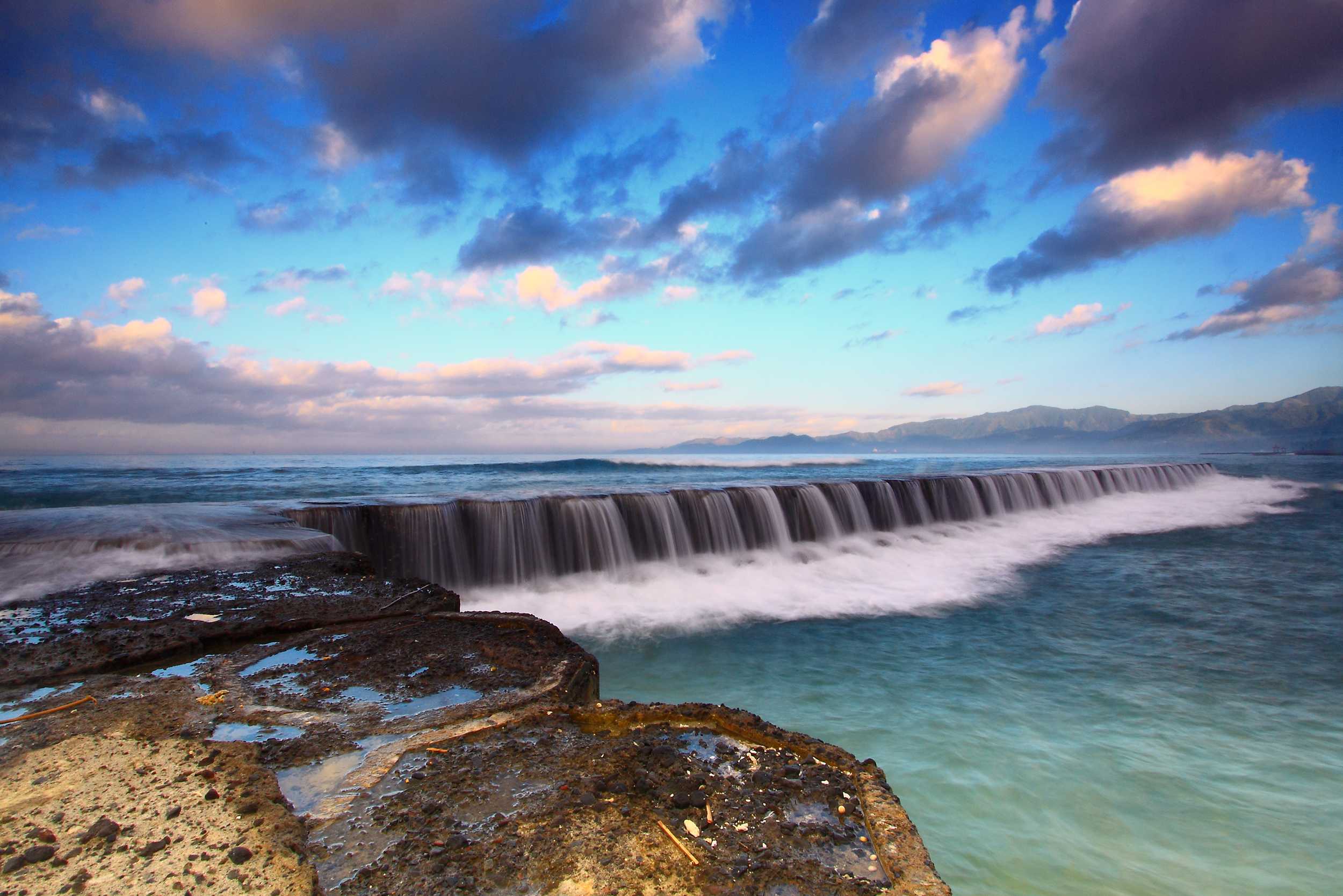 A jetty at Candidasa beach, Bali. The main attraction of Candidasa is a dazzling landscape of the beach. It is blighted by jetties protruding into the water, intended to slowdown the erosion caused by coral blasting for years.